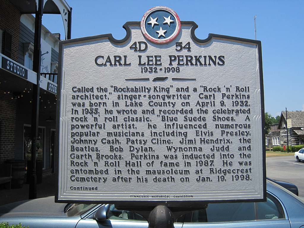 Casey Jones Village in Jackson, Tennessee..